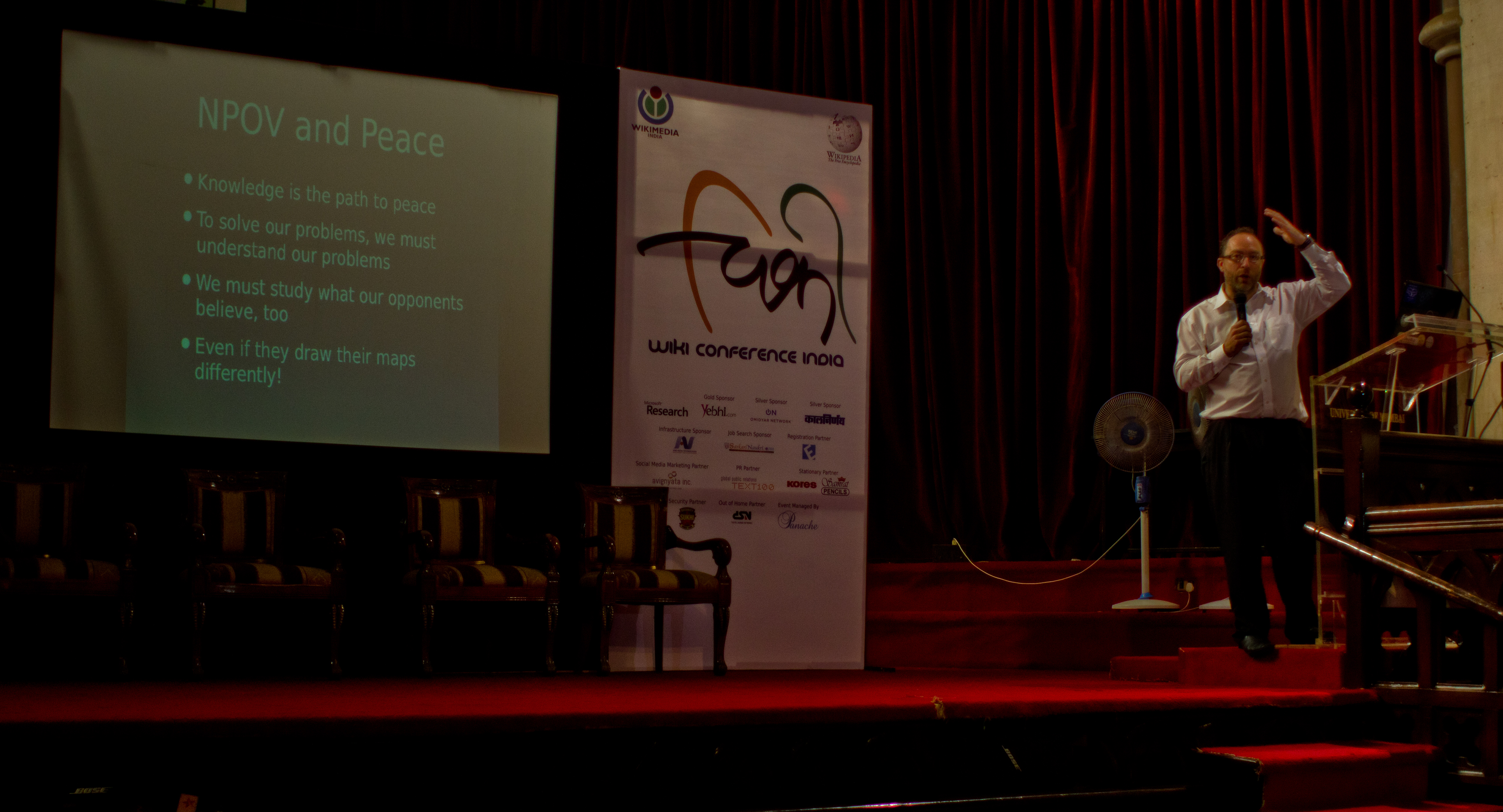 Jimmy Wales at WikiConference India Mumbai Victor Grigas